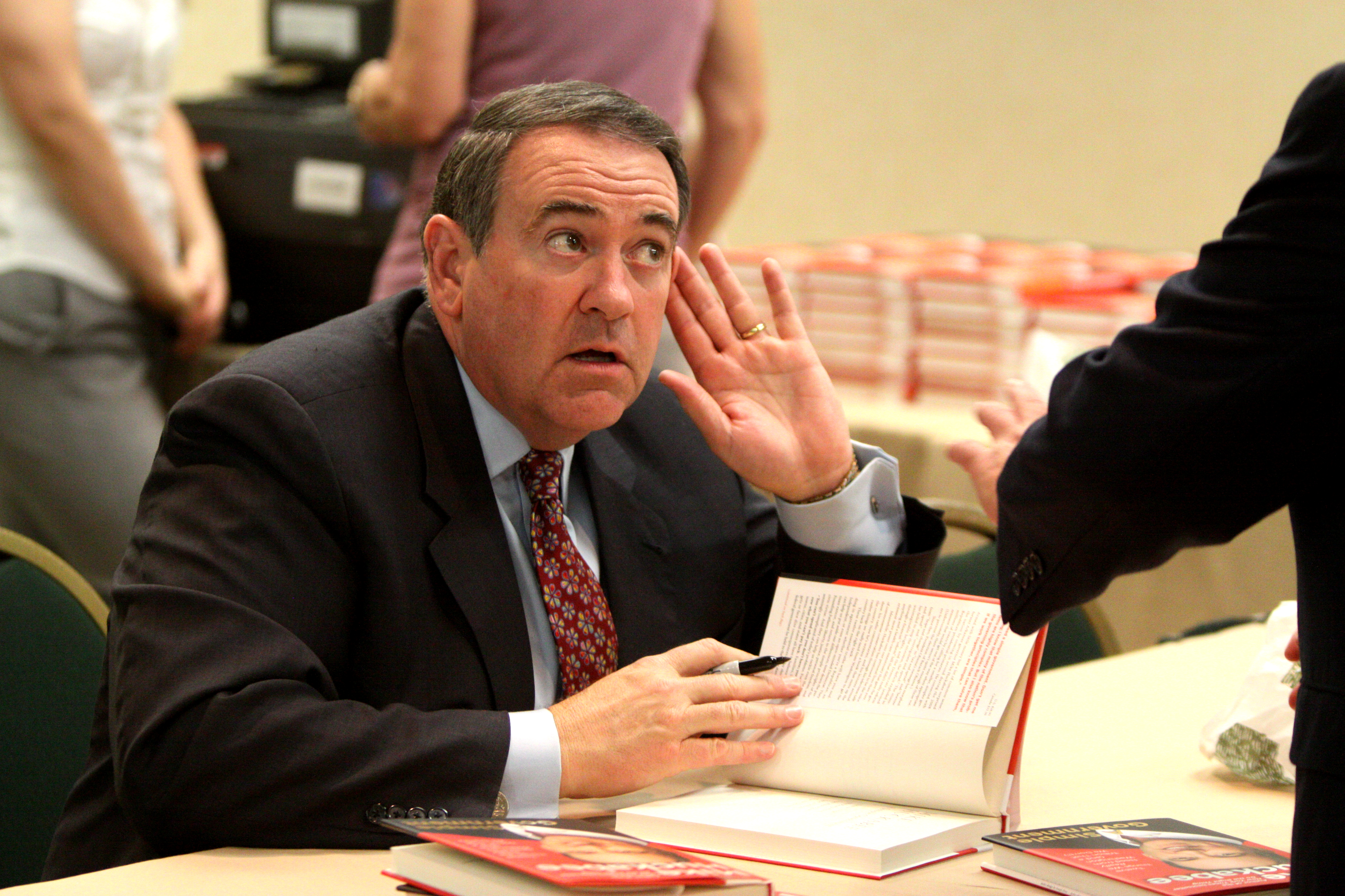 Governor Mike Huckabee at a book signing at the Republican Leadership Conference in New Orleans, Louisiana.